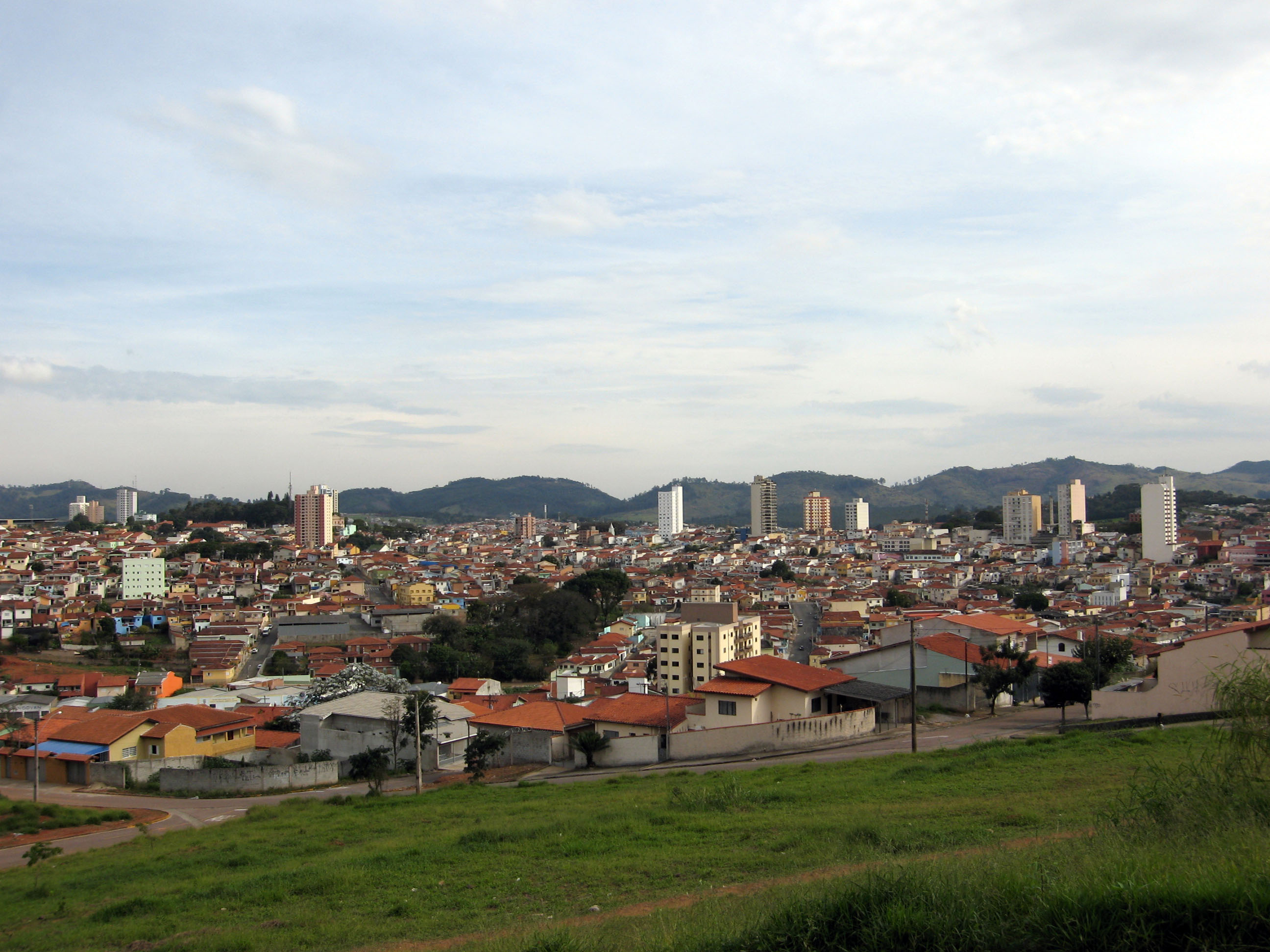 City of Bragança Paulista, downtown panoramic view.